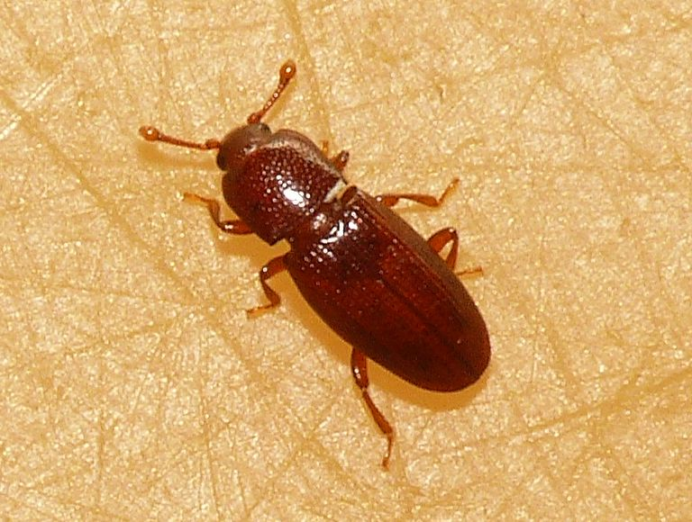 Cerylon ferrugineum. Location: The Netherlands - Wageningen - Plasserwaard